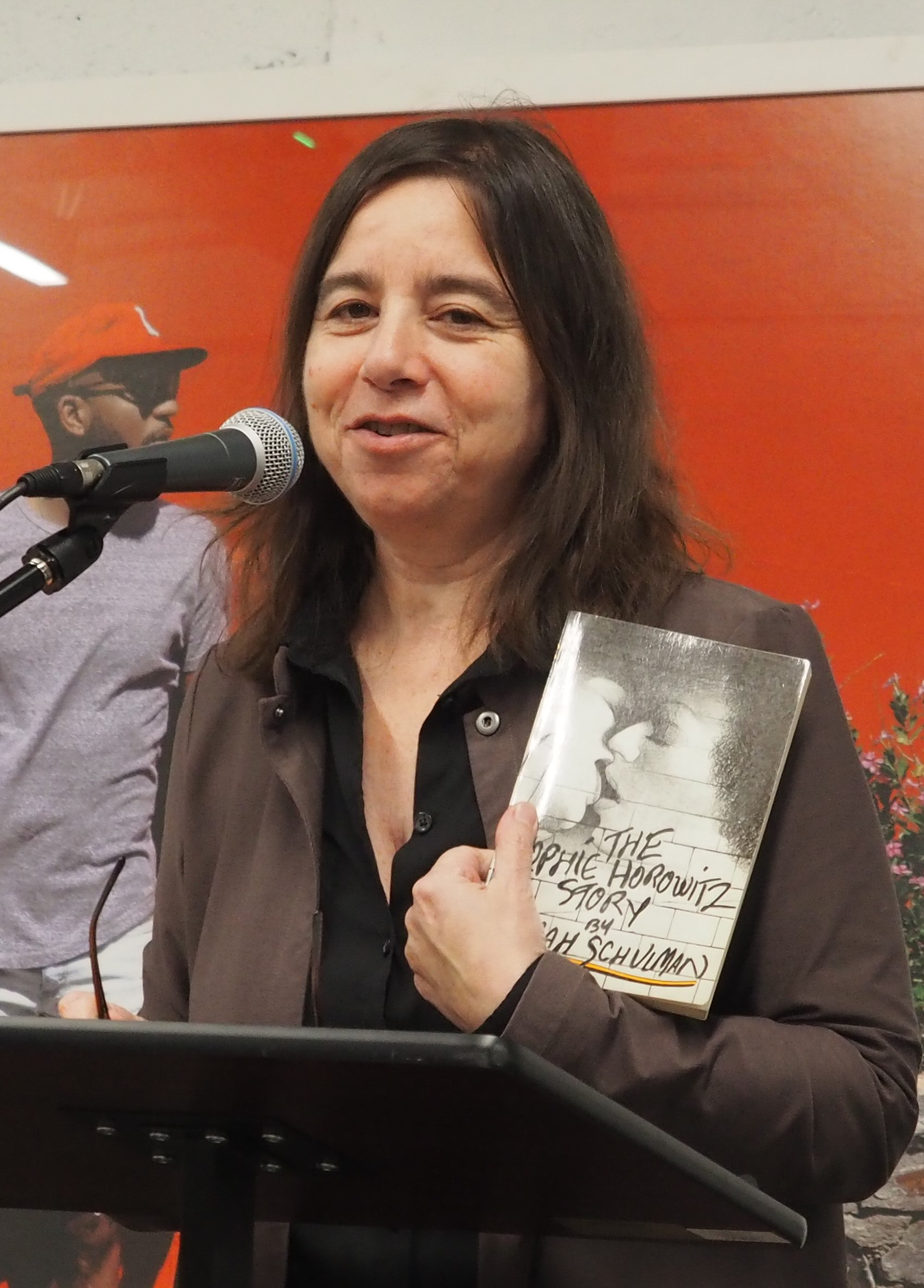 reading at Politics and Prose, Washington, D.C.